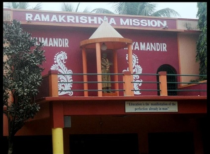 Katihar Ramakrishna Mission (front view)